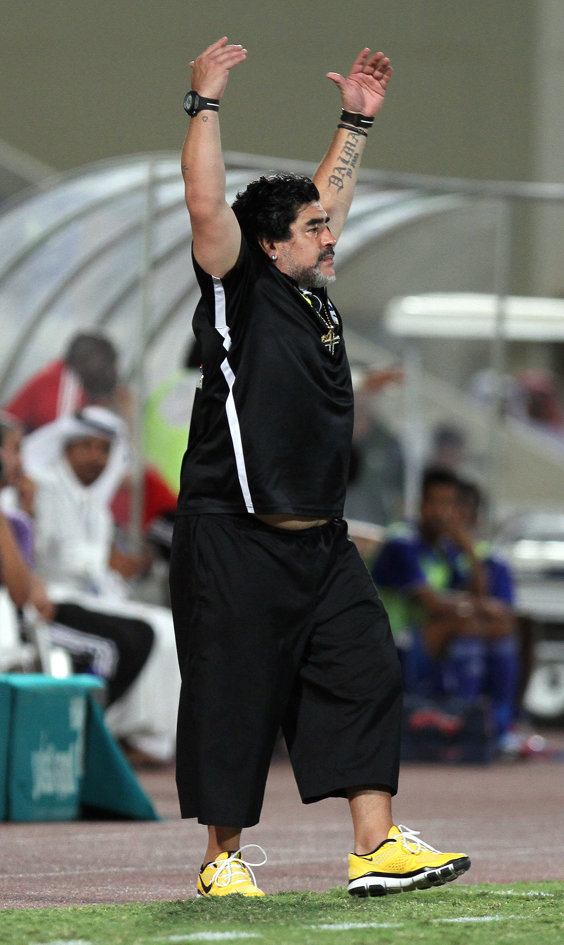 Al Wasl's Argentinian coach Diego Maradona during his team's GCC Champions League semifinal match against Al Khor. Picture by Vinod Divakaran